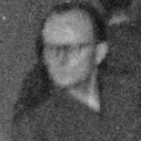 Max Eisinger, European Championship 1961 at Oberhausen, Photographer Gerhard Hund.